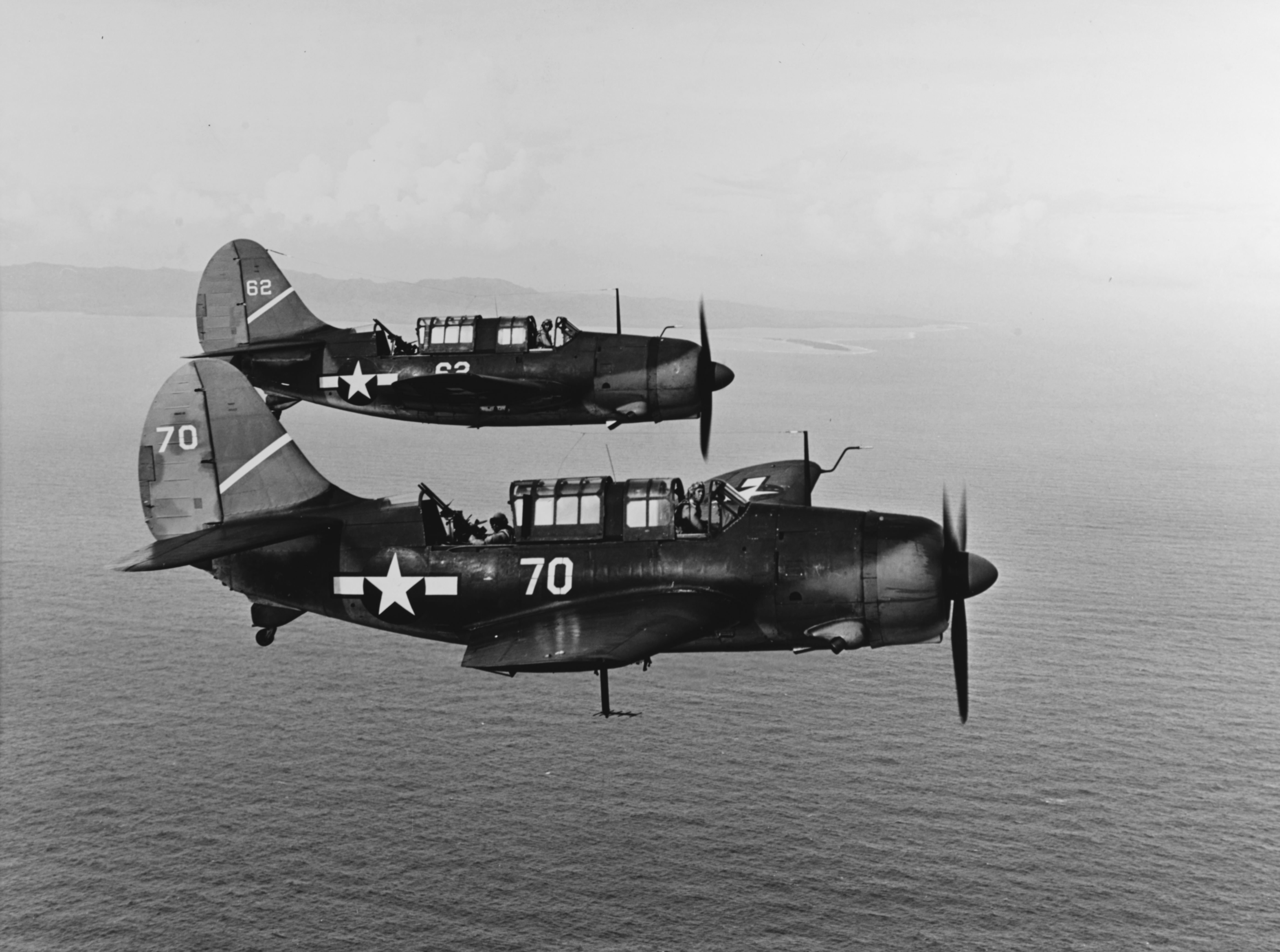 Two Curtiss SB2C-1C Helldiver dive bombers in flight, circa in 1944 (BuNo 18543 is nearer to the camera). The white bar on fin indicates the planes were from the aircraft carrier USS Yorktown (CV-10). Note the rake-like antenna beneath wing of the ASB search radar.